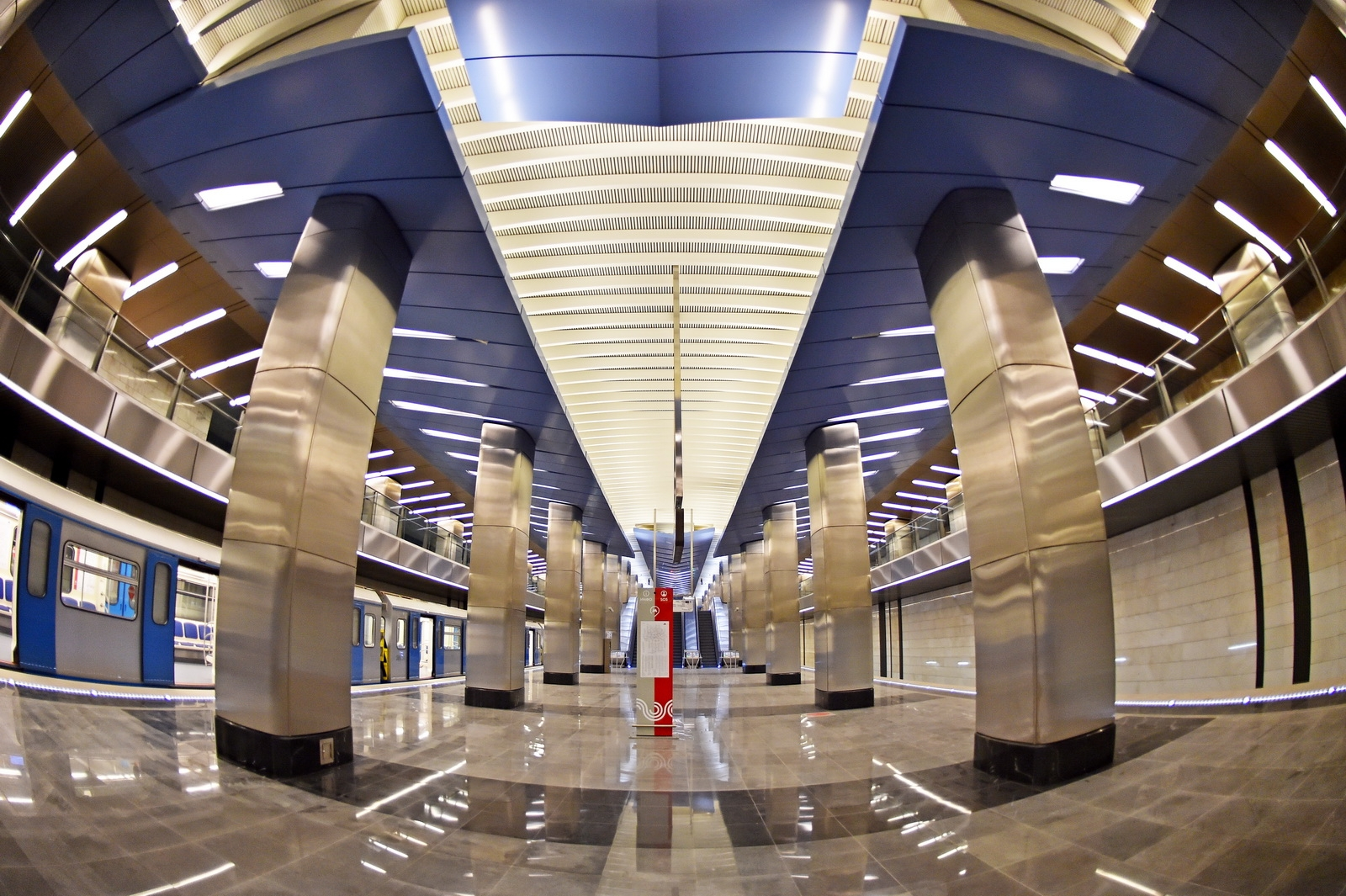 Delovoy Tsentr station of Bolshaya Koltsevaya line of the Moscow Metro